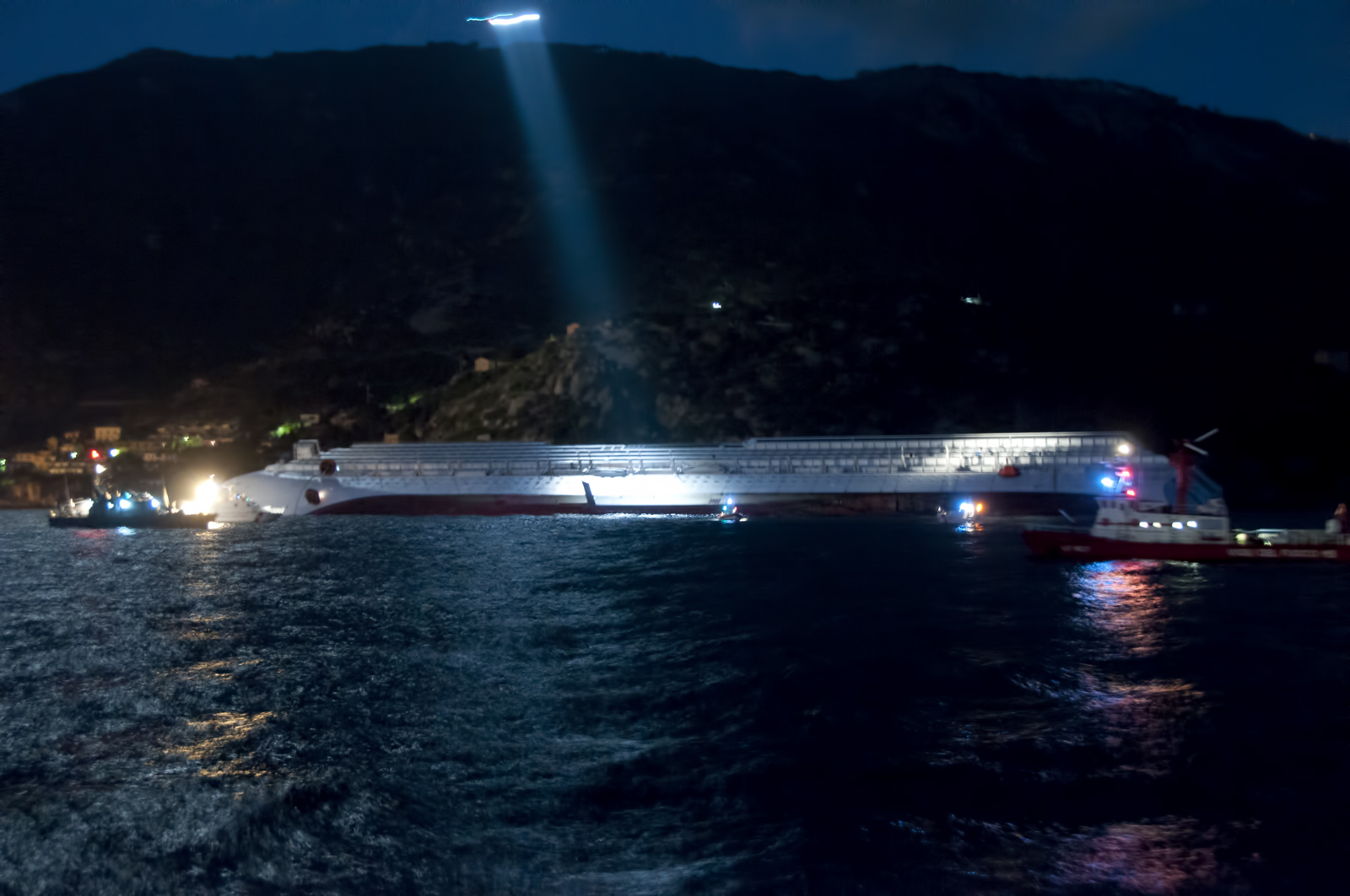 Sinking of the Costa Concordia - After the evacuation of survivors, the rescuers reached the ship by helicopter to begin the search of the interior.